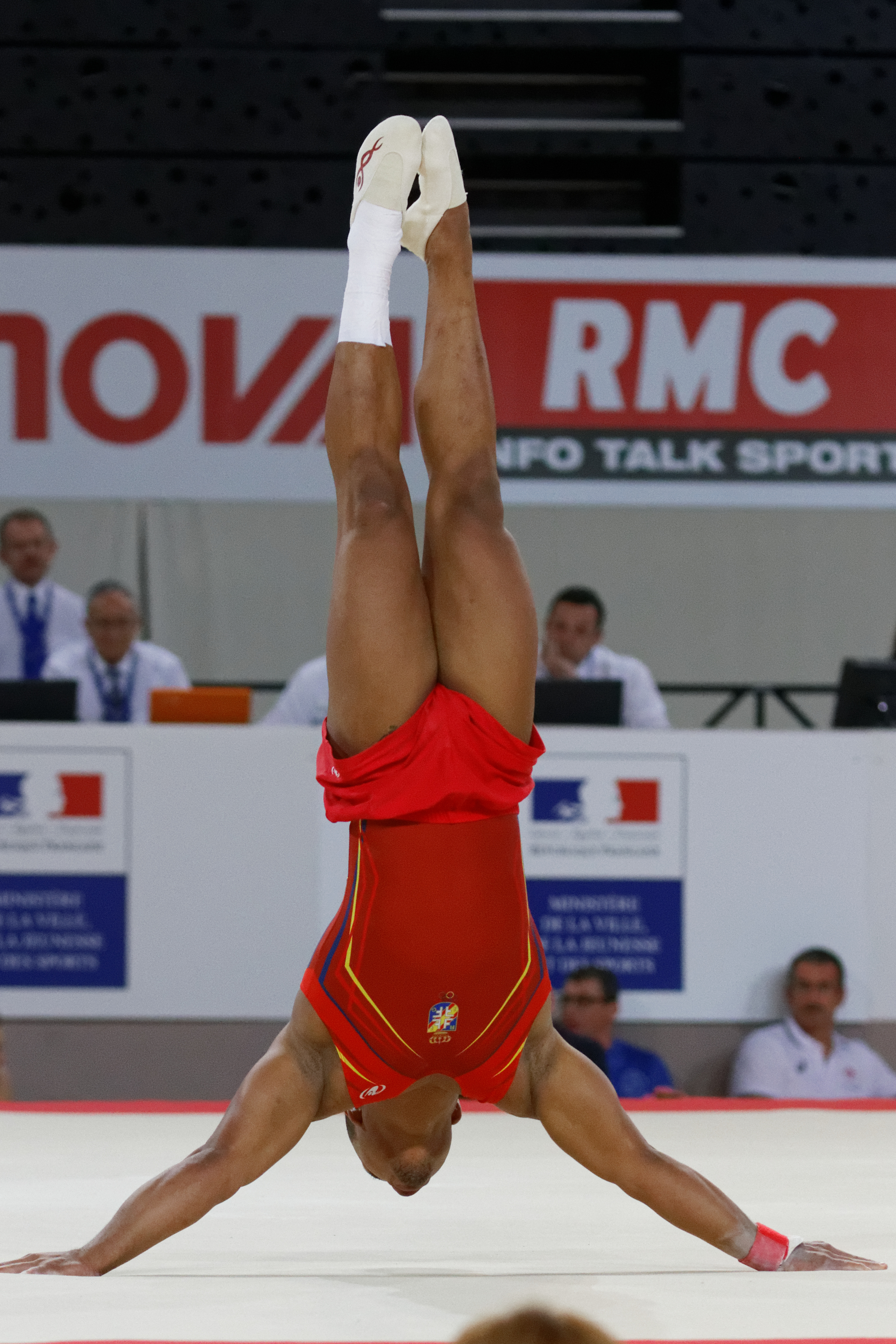 2015 European Artistic Gymnastics Championships. Floor.